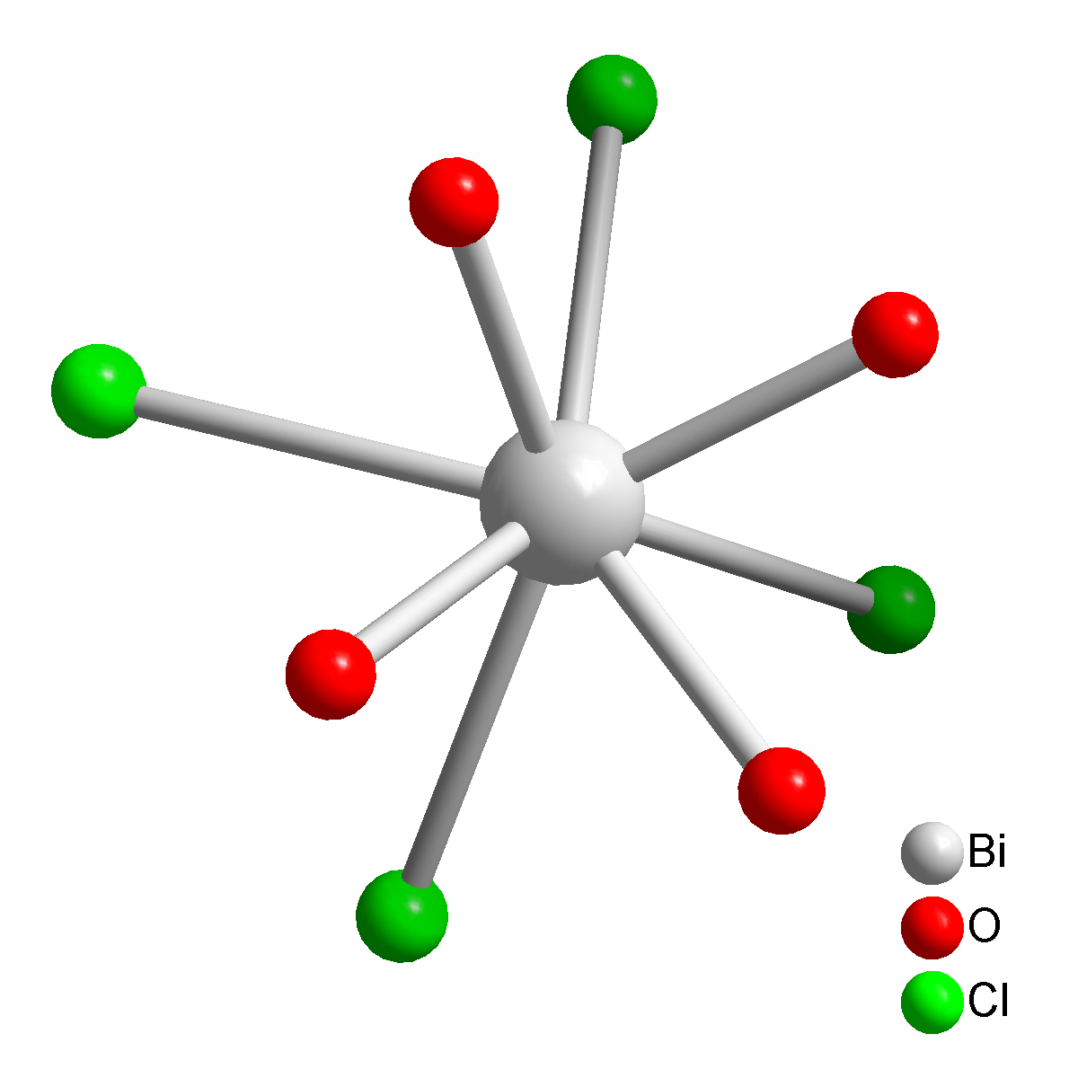 BiCl4O4 unit in the crystal structure of BiClO. Created using Diamond 4. Data from Keramidas, K. G.; Voutsas, G. P.; Rentzeperis, P. I., The crystal structure of BiOCl, Zeitschrift fur Kristallographie, 205, 35-40 (1993)